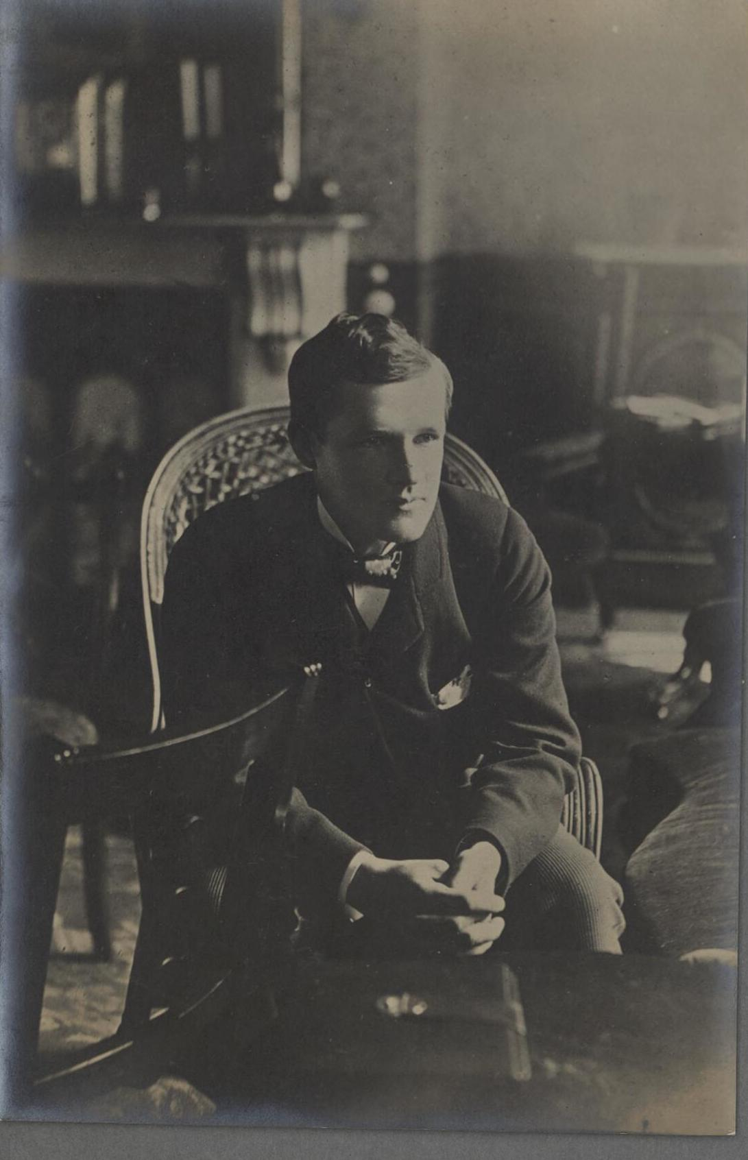 A portrait from the Welsh Portrait Collection at the National Library of Wales. Depicted person: David Alfred Thomas, 1st Viscount Rhondda – British businessman & politician